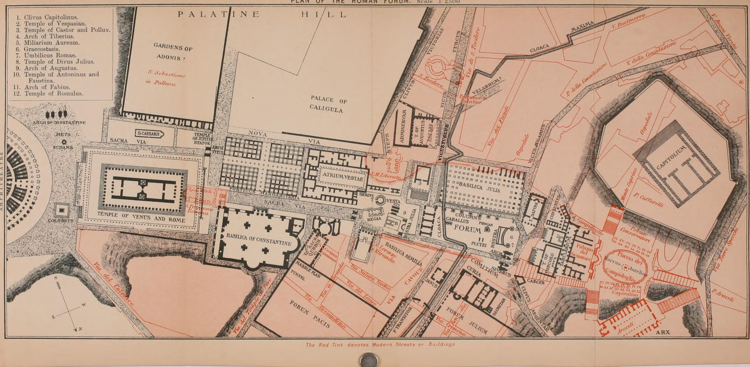 Title: A handbook of Rome and the Campagna Year: 1899 (1890s) Authors: John Murray (Firm) Subjects: Rome (Italy) -- Guidebooks Publisher: London : J. Murray Text Appearing Before Image: m e. PLAN OF THE ROMAN FORUM, s. ..1, Text Appearing After Image: The CiTv. Boute G.—Temple of Vespasian. ■57 *view of tin; Forum. Proceeding ontho W. sidu until tliis view is obtained,on the 1. we see the three liutedtuluiuus of the Temple of Vespasian,the Arch of Septiiuius Severus, andtho eight untluted colunms of theTemple of Saturn. Beyond is theColumn of Phocas, and below, infront, the Basilica Jnlin, backed bythe three beautiful colunnis of theTemple of Castor. To the rt. arethe bare brick walls of the Templeof Augustus, above which rises thePalatine. Below the Palatine are thescattered ruins of the Temples ofYesta and Julius Caesar; further tothe 1. on the further side of theexcavated area are the Temple ofFaustina (S. Lorenzo in JMir.mda), andthe round Temple of Romulus (SS.Cosma e Damiauo). Be.v,ond theseare seen two arches of the Basilicaof Constantine, the Church of S.Francesca Komana, the Arch of Titus,at the summit of tlie Sacra Via, andin the distaufc the Colosieum. Immediately below the near wall onthe 1., at the S. side of the T